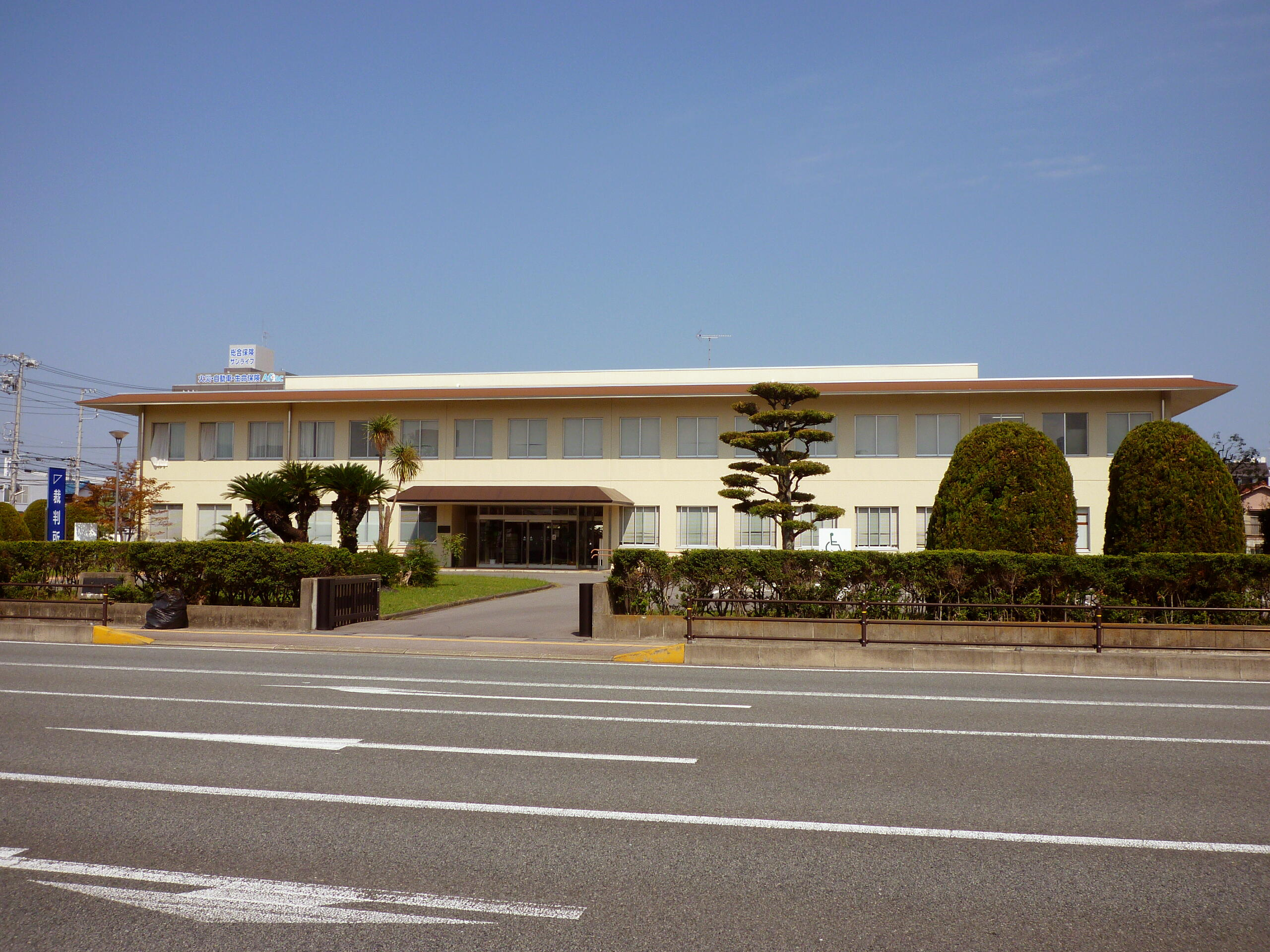 The "Tsu District Court Matsusaka Branch" in Matsusaka, Mie, Japan.